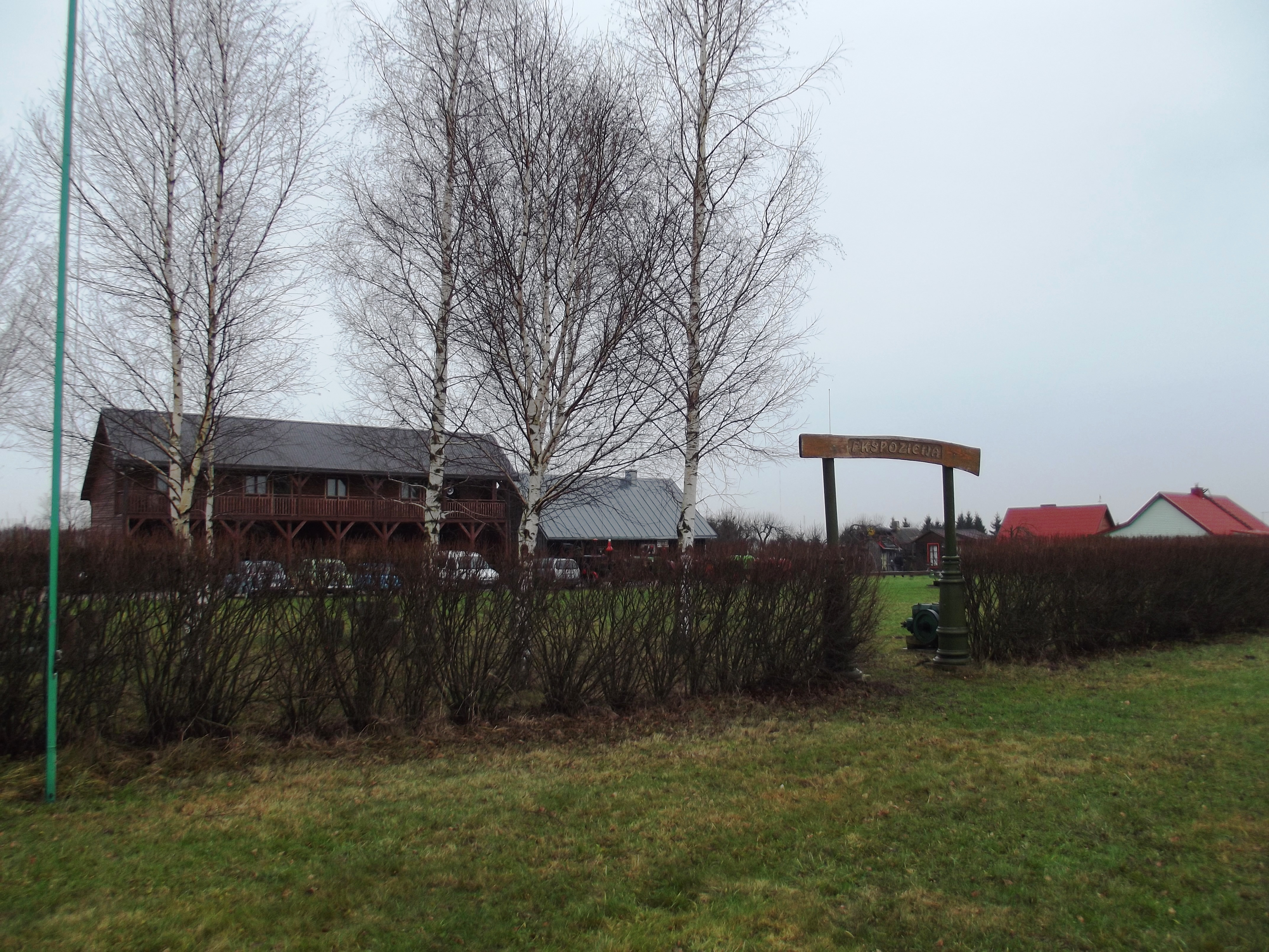 Biliūnai, museum, Kaunas district, Lithuania